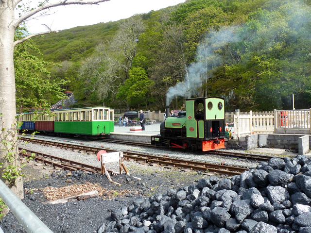 Loco at Gilfach Ddu station, Llanberis. This locomotive on the Llanberis Lake Railway started life in 1922 working in the nearby Dinorwic slate quarry, now closed. It is preparing for the first train of the day, the 11:00 to Llanberis, and back again through here to the other extremity of the line at Penllyn, to return to here.